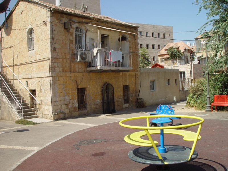 Jerusalem, Ohel Shlomo Neighborhood. Children playground.